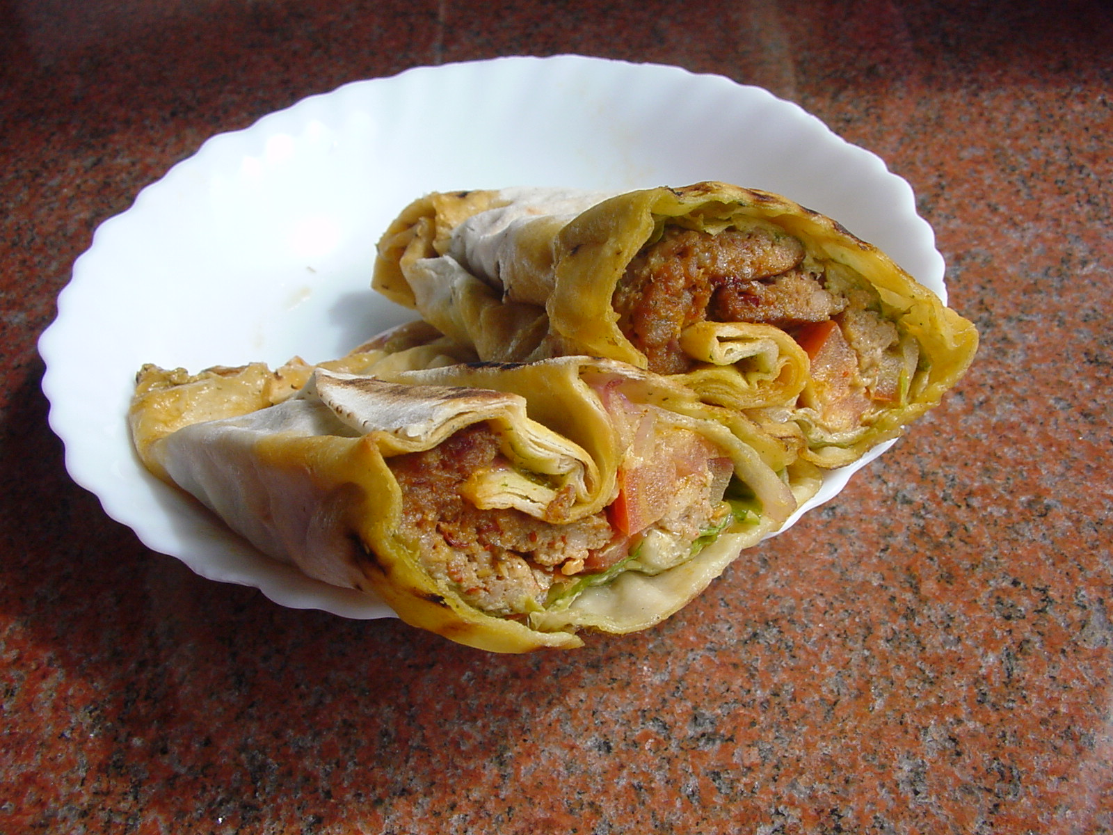 2 halves of a lamb roti roll